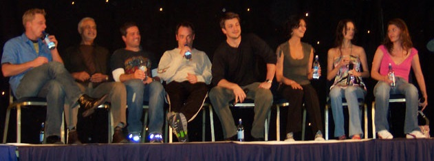 The cast of Firefly.